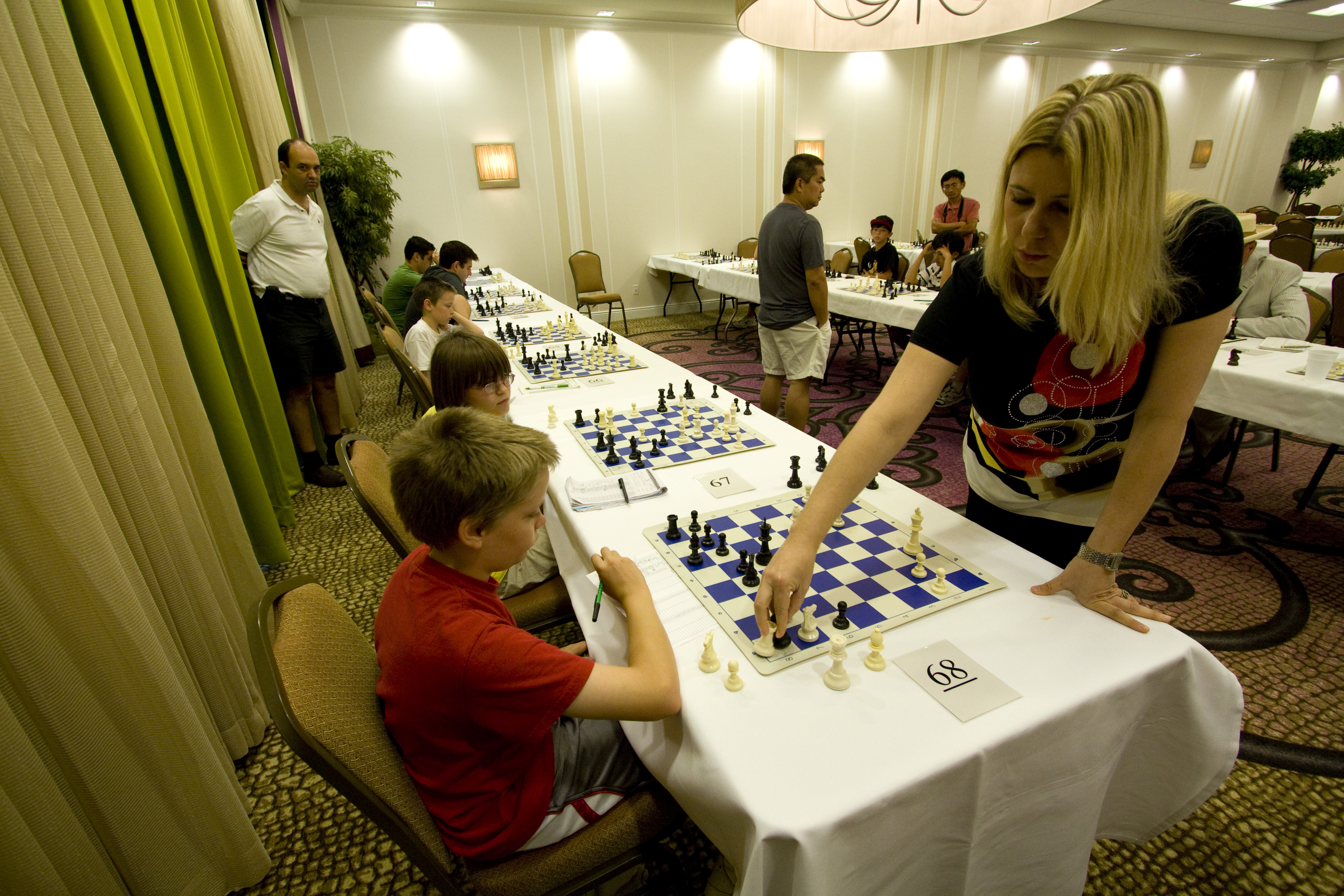 Chess Grandmaster Susan Polgar (Zsuzsa Polgár) playing simul games in New Orleans